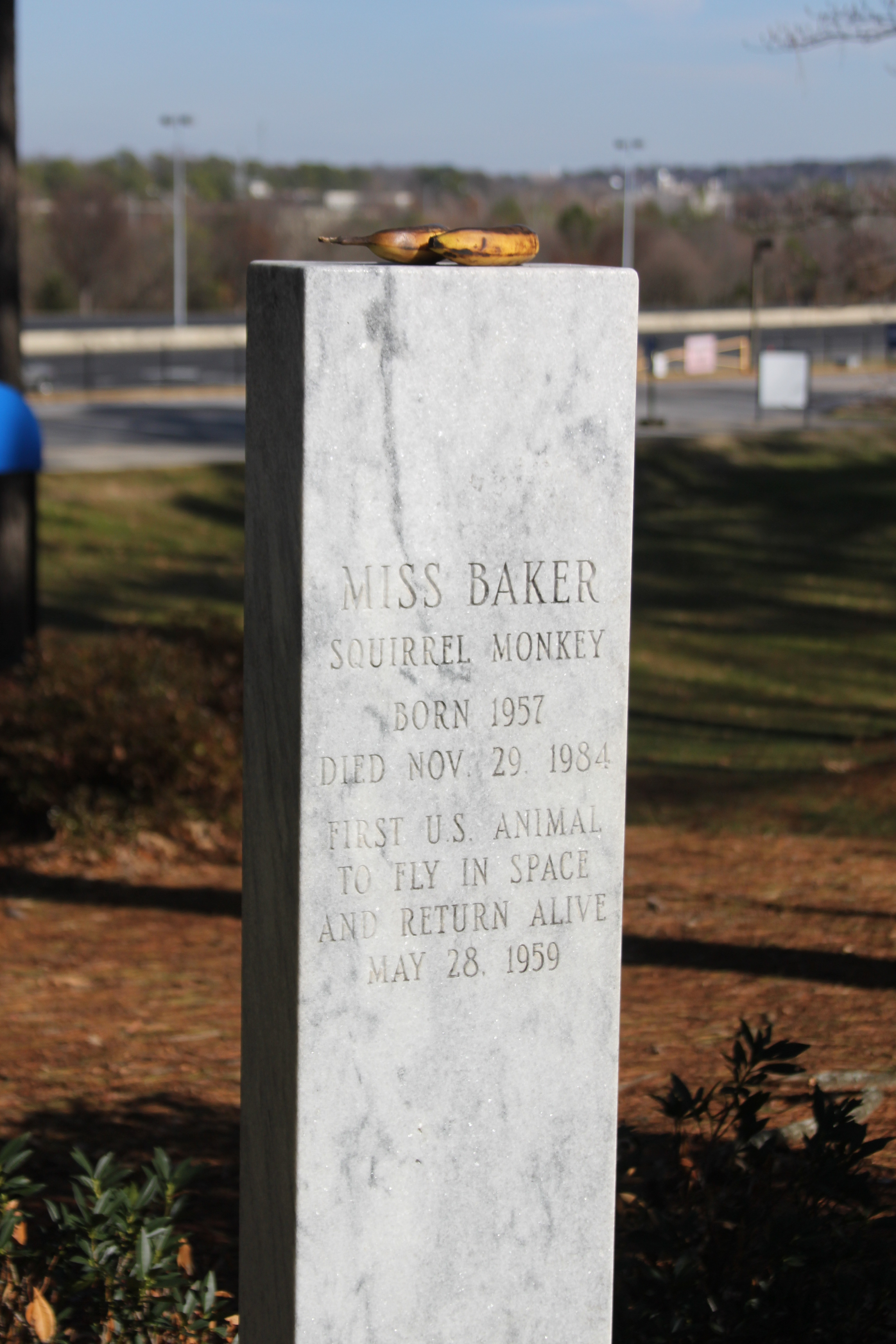 The gravestone of space pioneer Miss Baker is at the U.S. Space and Rocket Center in Huntsville, Alabama. It frequently has a banana on top.